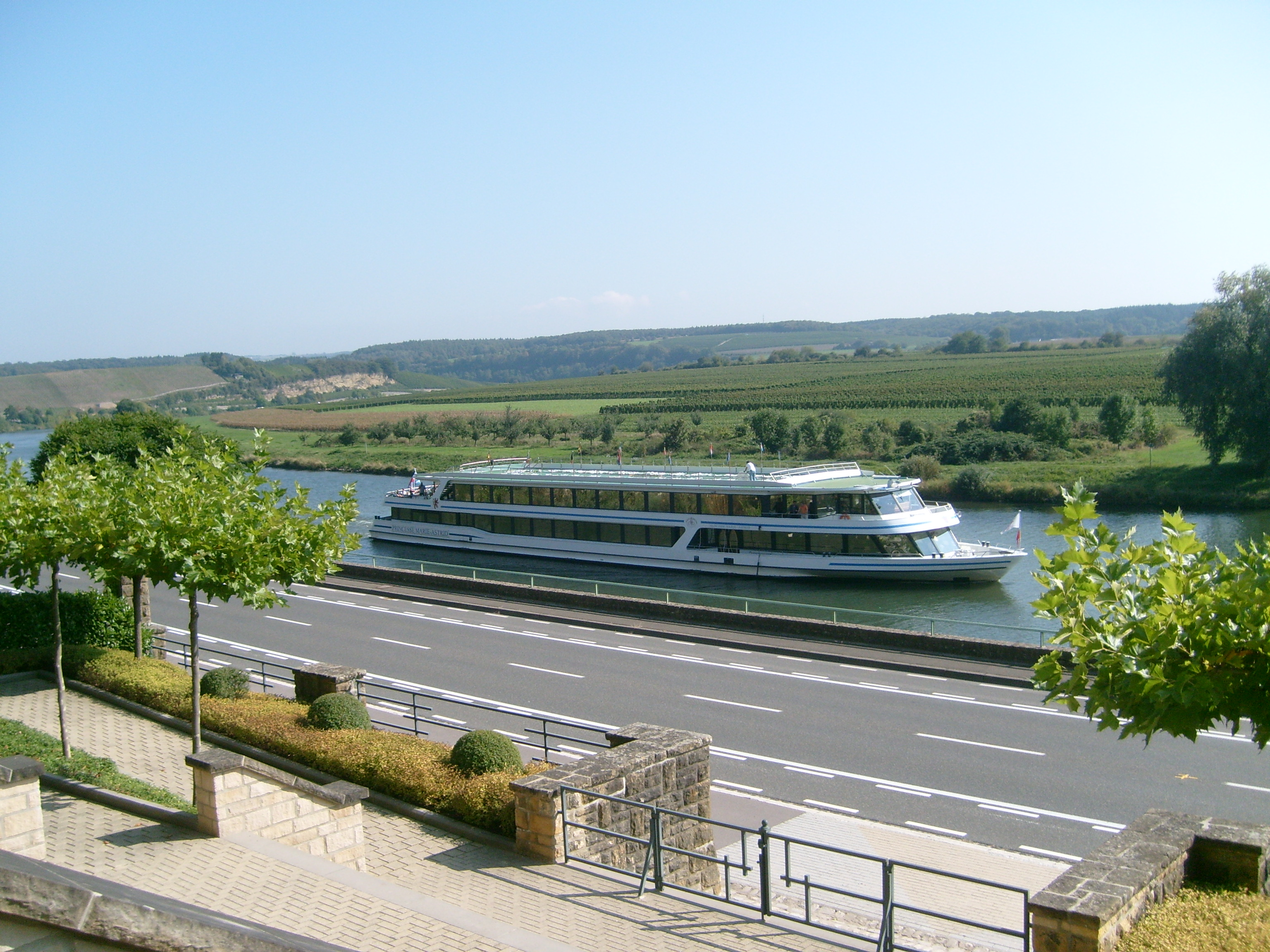 The boat named Princesse Marie-Astrid on the river Moselle below Paul-Eyschen-Monument near Stadtbredimus, Luxembourg.